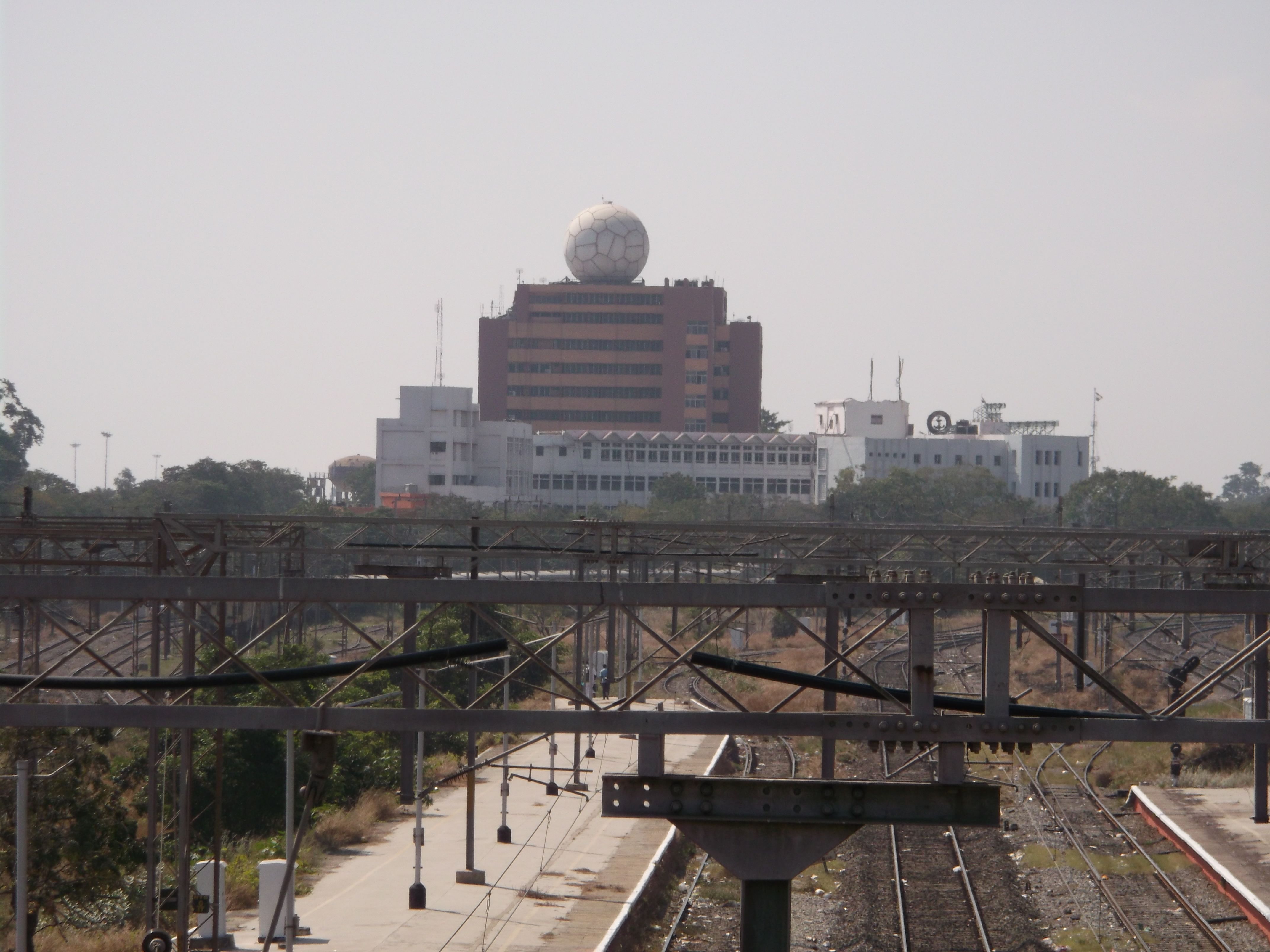 Chennai Port Trust Building as seen from Chennai Beach Station, taken on 2-Feb-2013 at 11:00 am. One can see the radôme of the Doppler weather radar serving Chennai for the India Meteorological Departement.